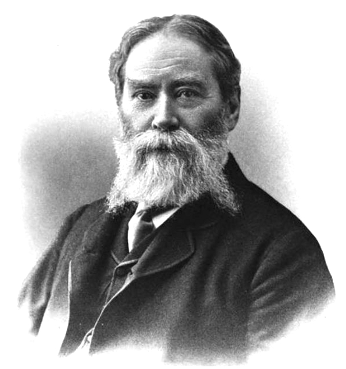 Image of American professor and poet James Russell Lowell. From The complete poetical works of James Russell Lowell collected by Horace Elisha Scudder. Published by Houghton, Mifflin, 1896.